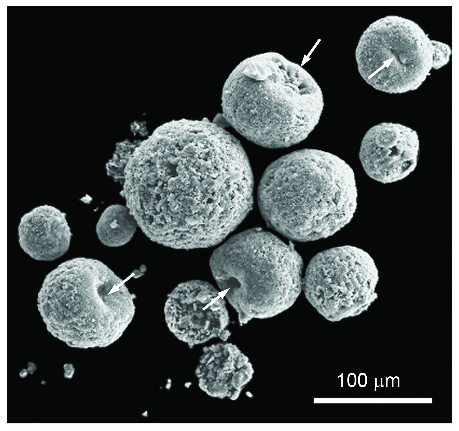 Iberulites are a particular type of microspherulites developed in the atmosphere and finally fallen to the earth's surface.